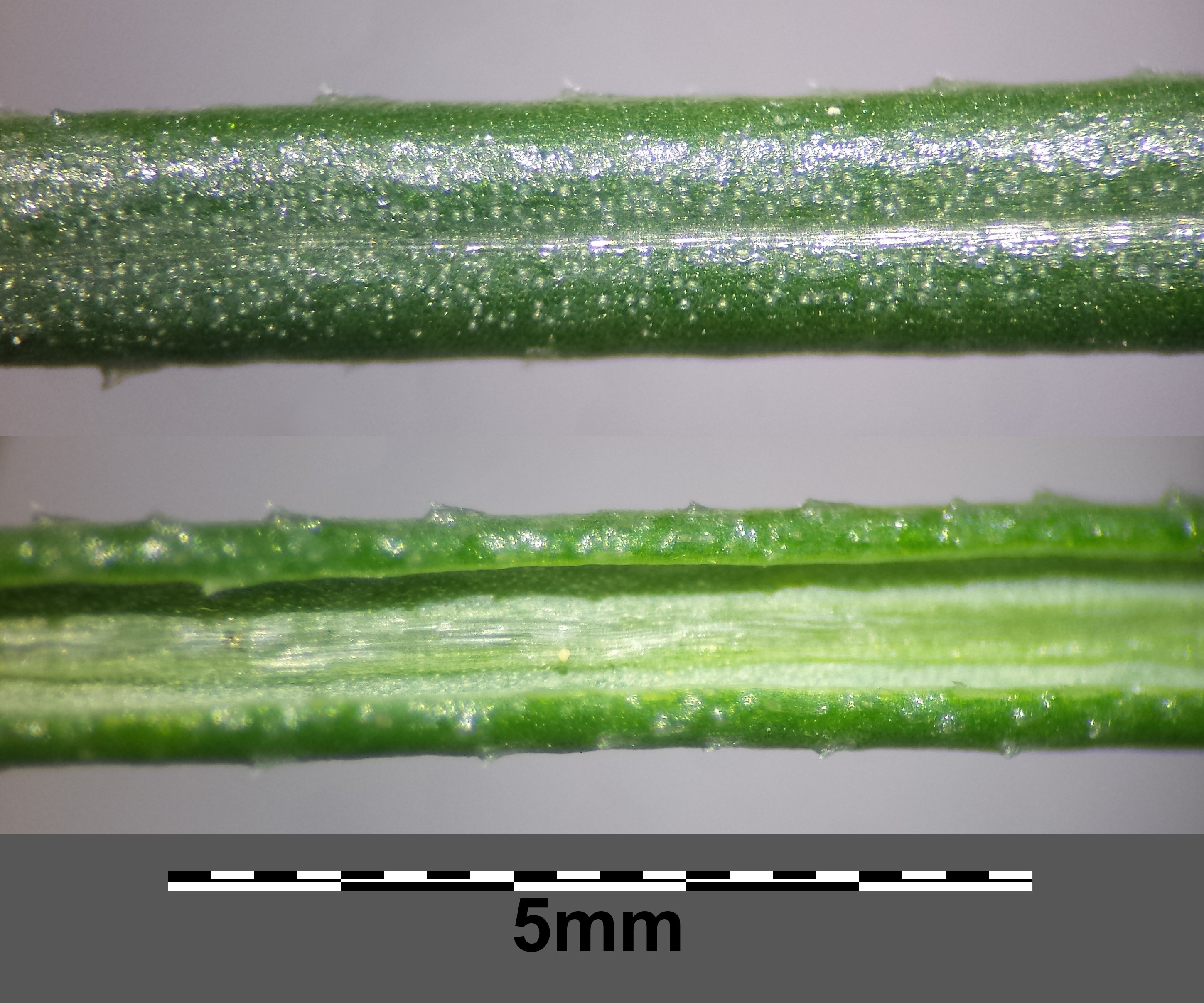 Revolute leaf (top and bottom side) Taxonym: Galium glaucum ss Fischer et al. EfÖLS 2008 ISBN 978-3-85474-187-9 Location: Steinberg near Niederhollabrunn, district Korneuburg, Lower Austria - ca. 370 m a.s.l. Habitat: semi-dry grassland